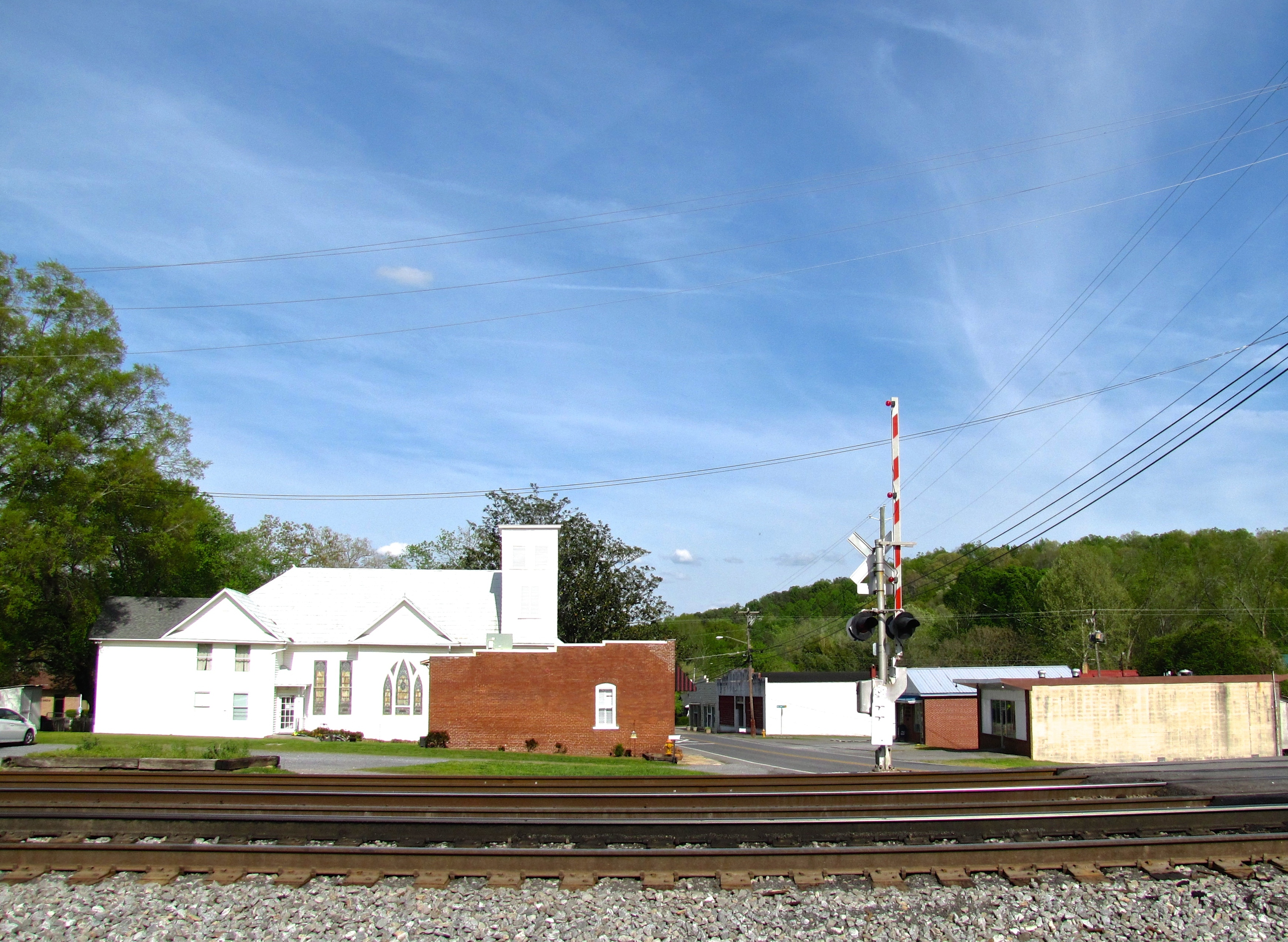 Buildings along Wolfe Street in Cohutta, Georgia, United States.